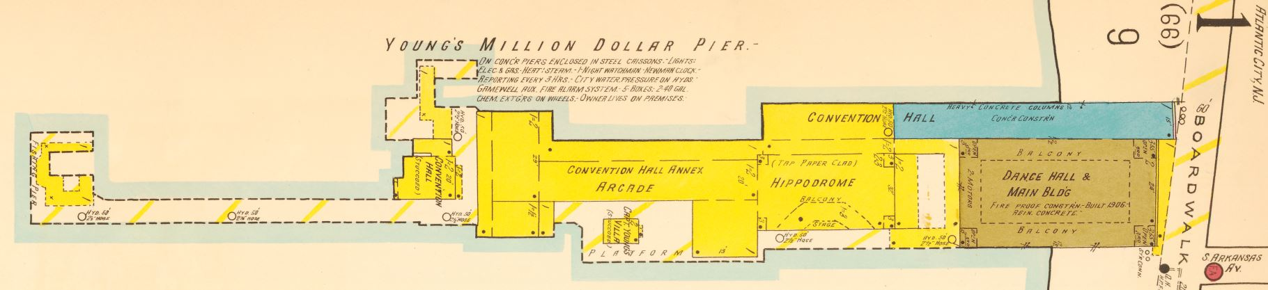 Insurance maps of Atlantic City New Jersey Sheet 1, Maps and Geospatial Data, Princeton University Library